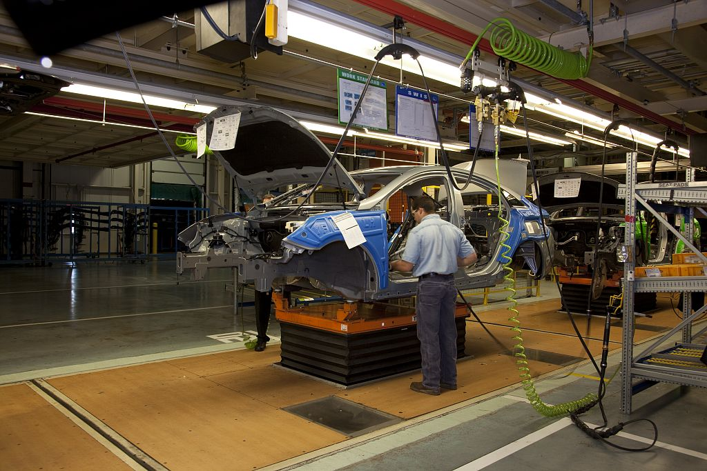 A Hyundai Sonata being built at Hyundai Motor Manufacturing Alabama in Montgomery, Alabama.